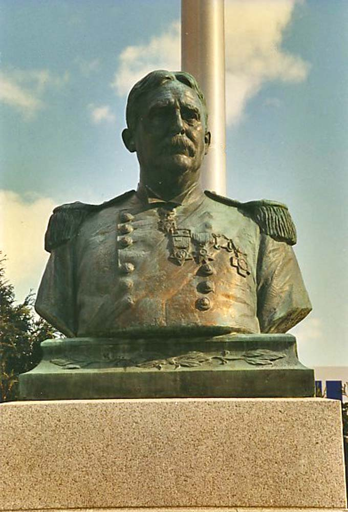 Bust of Gen. William Shafter by Coppini (1919) located in Galesburg, MI, USA